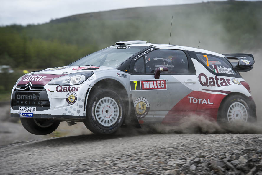 Wales Rally Great Britain 2012 Citroen DS3 WRC,Free Practice,Freies Training,Giovanni Bernacchini,Motorsport,Nasser Al Attiyah,Nasser Al-Attiyah,Qatar WRT,Qatar World Rally Team,Rally,Rallye,Shakedown,WRC,Wales Rally GB,Walters Arena